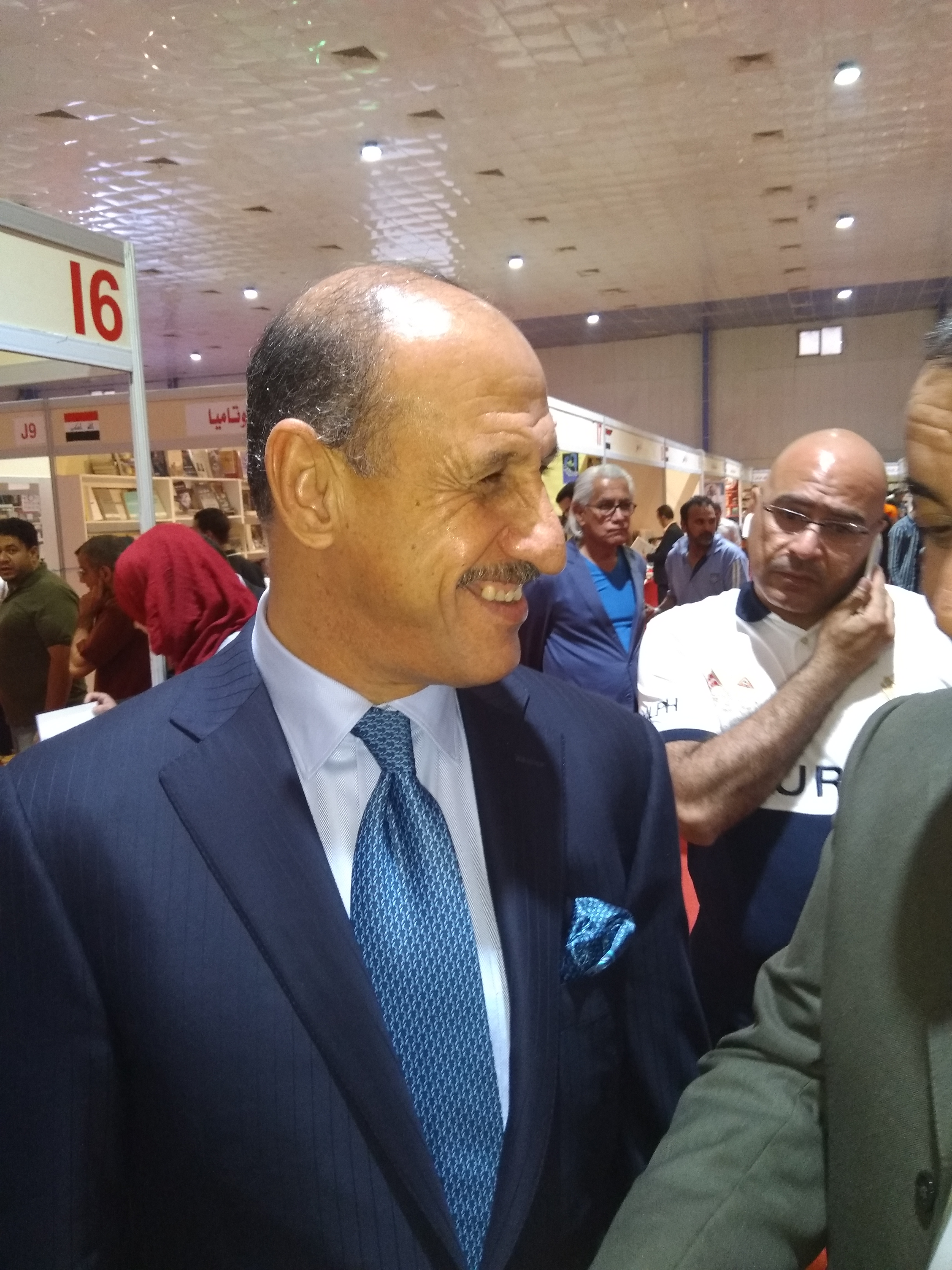 Adnan Derjal, Iraqi football coach and former football player